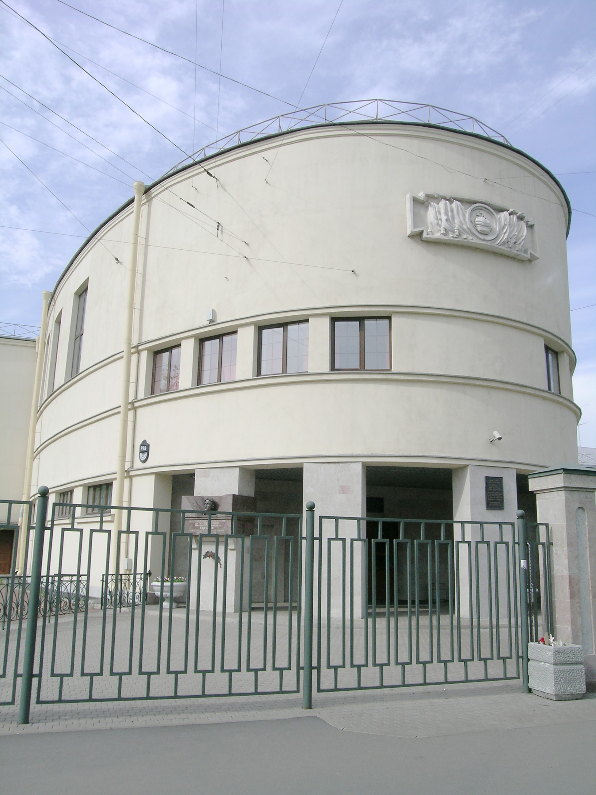 Mikhail Kharchenko Secondary School 104, Vyborgskiy District, Saint Petersburg, Russia after 2012 refurbishment - main entrance, school auditorium windows, to the left, on a pillar, - memorial plaque for Hero of the Soviet Union World War II guerrilla and Red Army officer Mikhail Kharchenko on the school given his name in Kharchenko Street on the corner of Kantemirovskaya Street; on a pillar to the right - a tablet with some historic details on the building and its architect